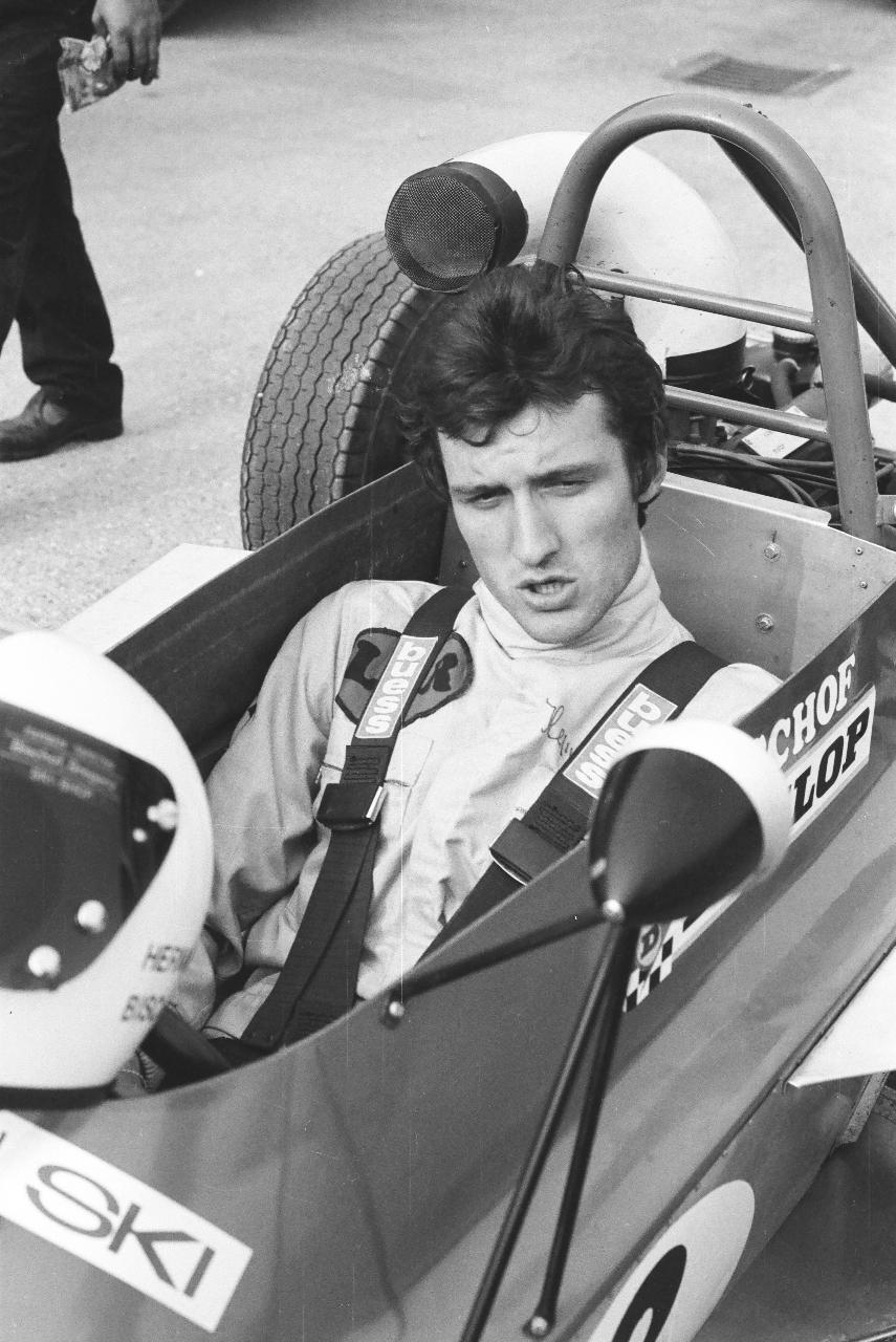 First podium, GP v. Wien 1975(Aspern) with LCR Formula Ford (Chassis No. 001)